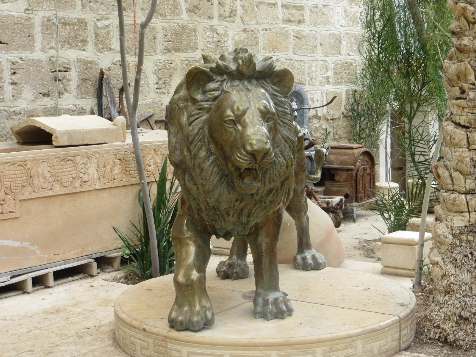 Religion in Palestine